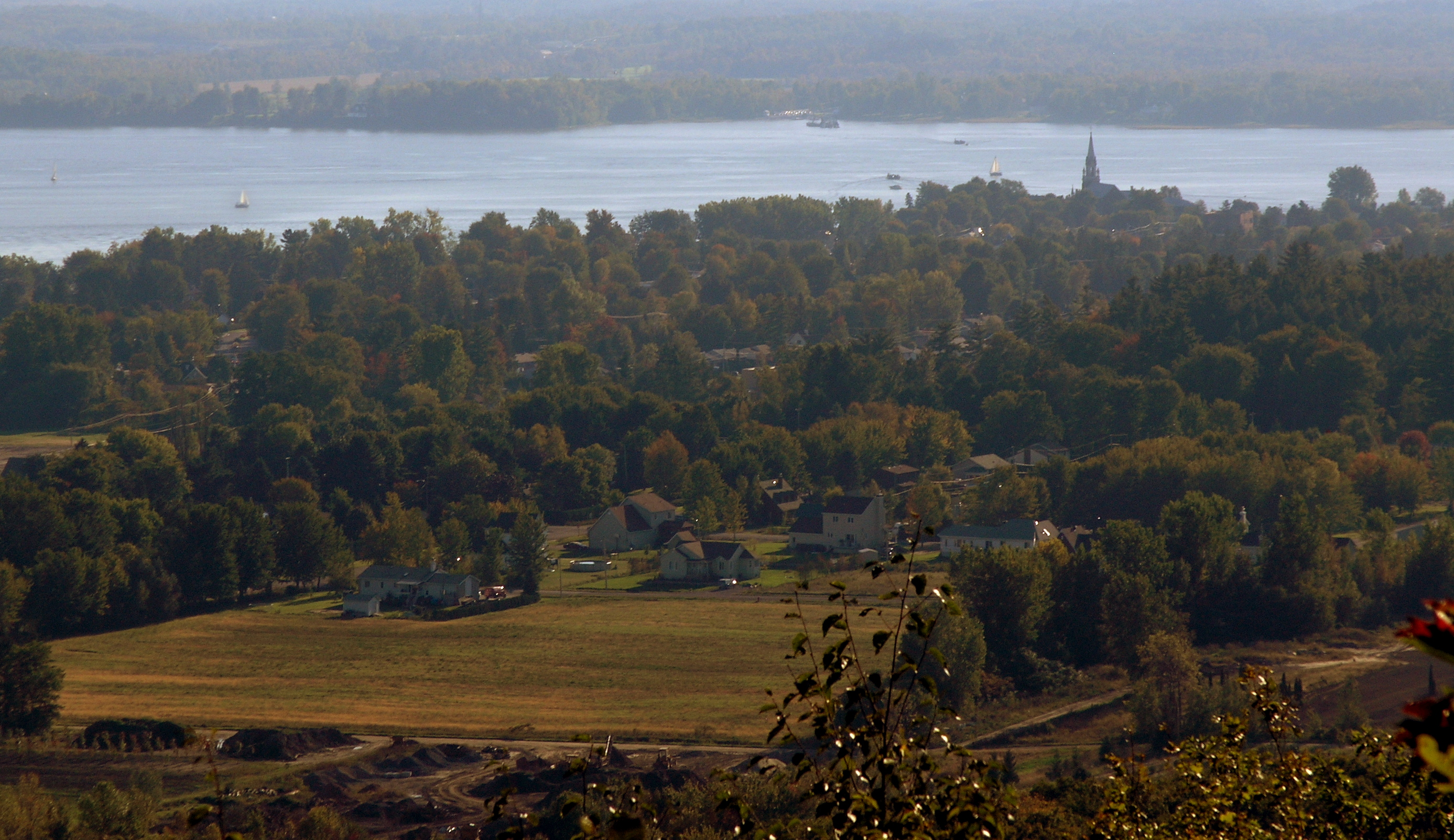 Oka village as seen from Mount Oka, with Lac des Deux Montagnes.